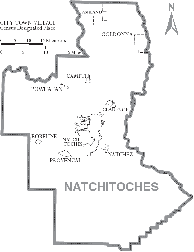 Map of Natchitoches Parish, Louisiana, United States with municipal boundaries